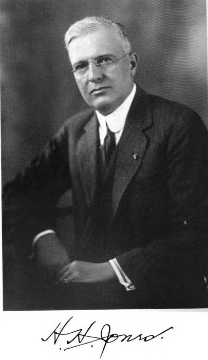 Henry Harrison Jones - President San Diego Consolidated Gas & Electric 1910-1920. Served as a director and member of the executive committee during the Panama-California Exposition (1915), whose group was responsible for the designing, creation and building the first, original structures and buildings in Balboa Park, San Diego, California.